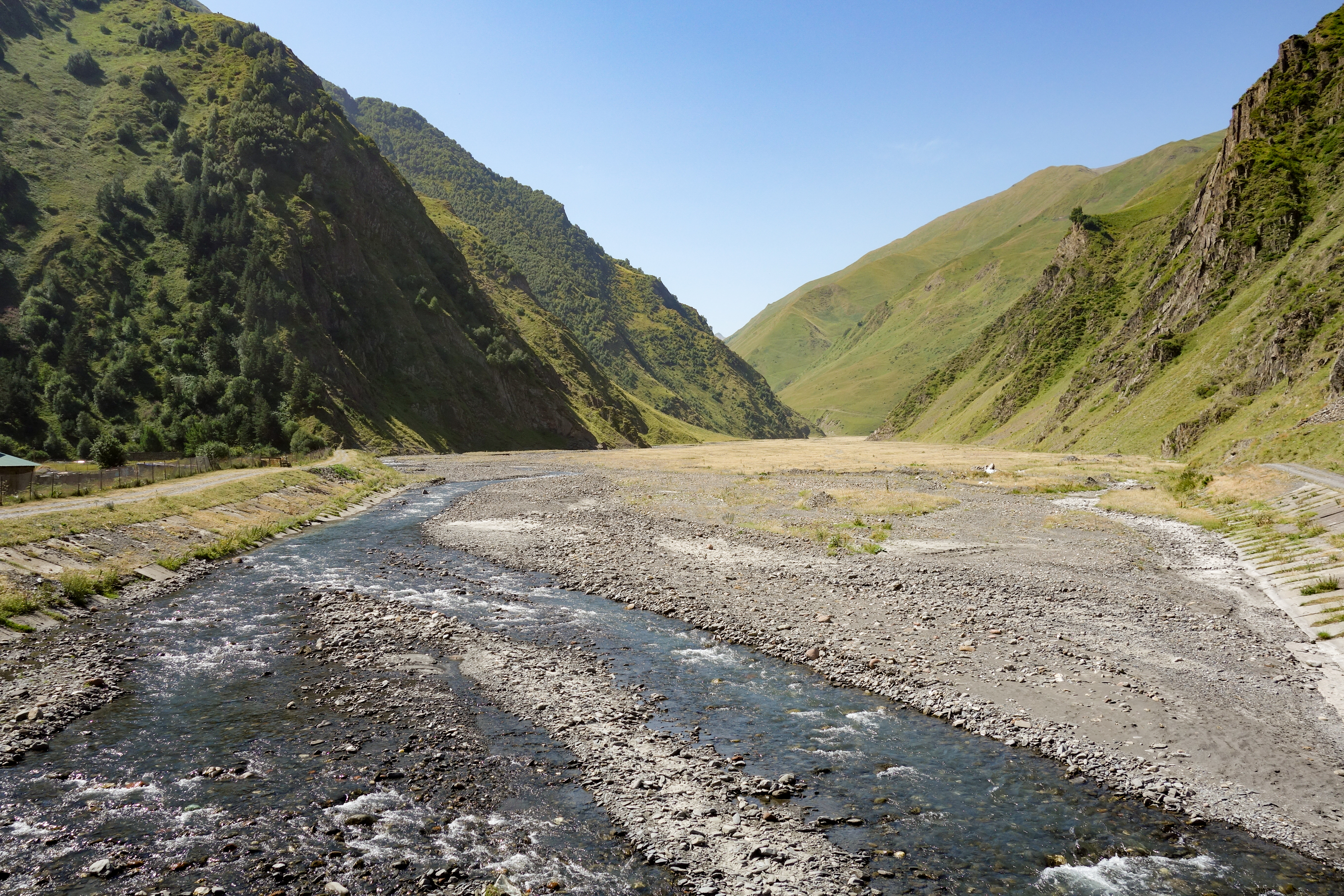 Artkhmostskali near the confluence, Mtskheta-Mtianeti, Georgia